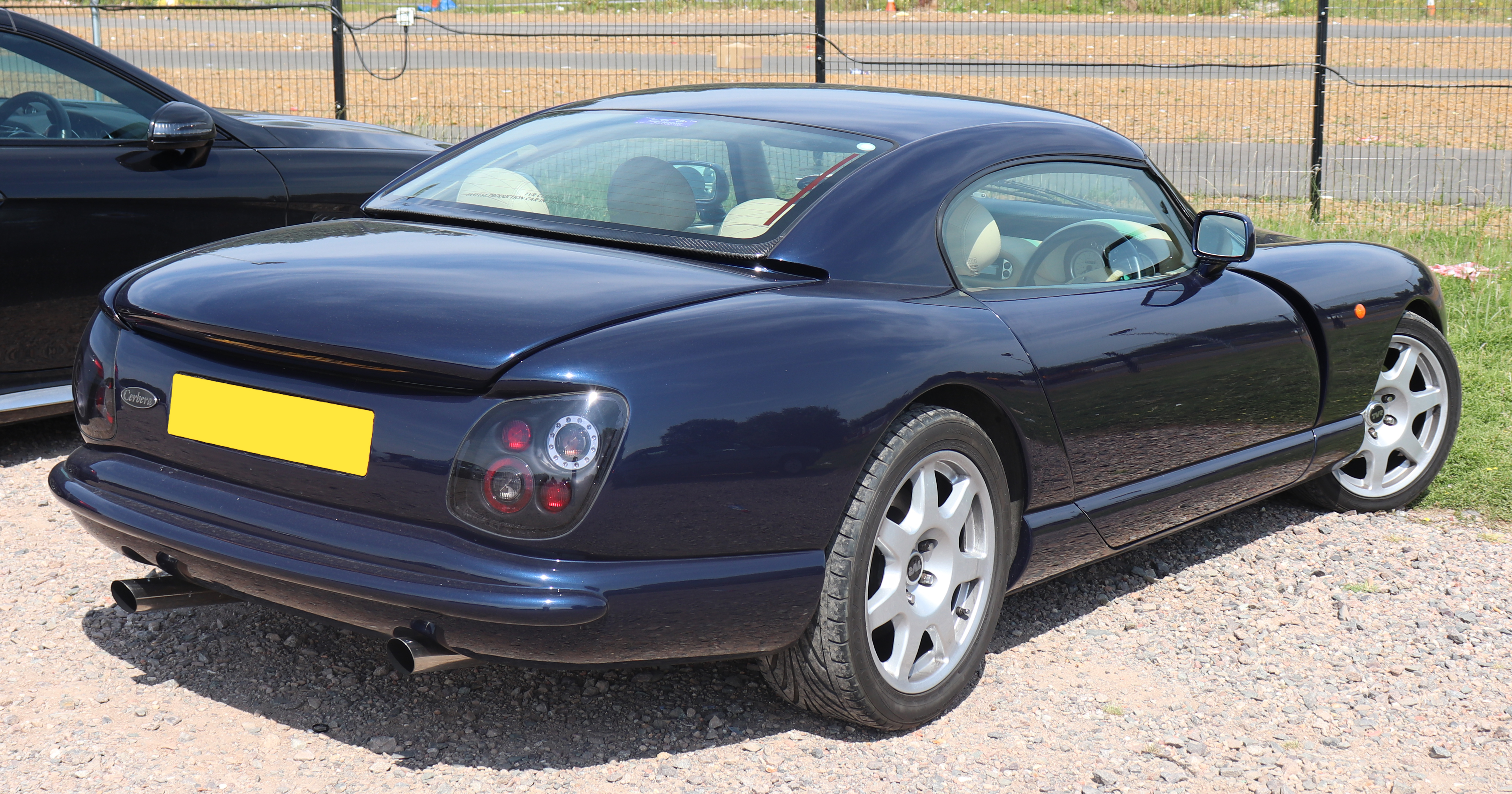 1997 TVR Cerbera Speed Six 4.2 Rear Taken at the British Motor Museum BMC & Leyland Show 2018, Gaydon